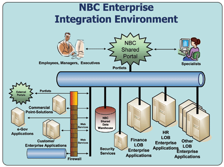 NBC PROFILE - WINTER 2006, NBC's Human Resources Line of Business, Innovative Future Direction On August 23, 2005, the Office of Personnel Management (OPM) issued a press release announcing the National Business Center (NBC) as one of five Federal Human Resources (HR) Shared Service Centers (SSC). Now that the NBC has been chosen by the OPM to continue as an HR Line of Business (LoB) SSC, the NBC's vision is to offer not only the NBC's world-class integrated core HR and payroll solutions, but the full range of HR functions envisioned by the OPM. What this means for the NBC's customers, is seamless coupling of streamlined HR processes and state-of-the-art technology to support the full employee life-cycle, along with the NBC's time-honored commitment to excellence. For 30 years, by delivering "core" HR systems and services, the NBC has partnered with Federal agencies enabling them to focus on their agency's mission. Currently, a large number of Federal agencies enjoy this benefit.